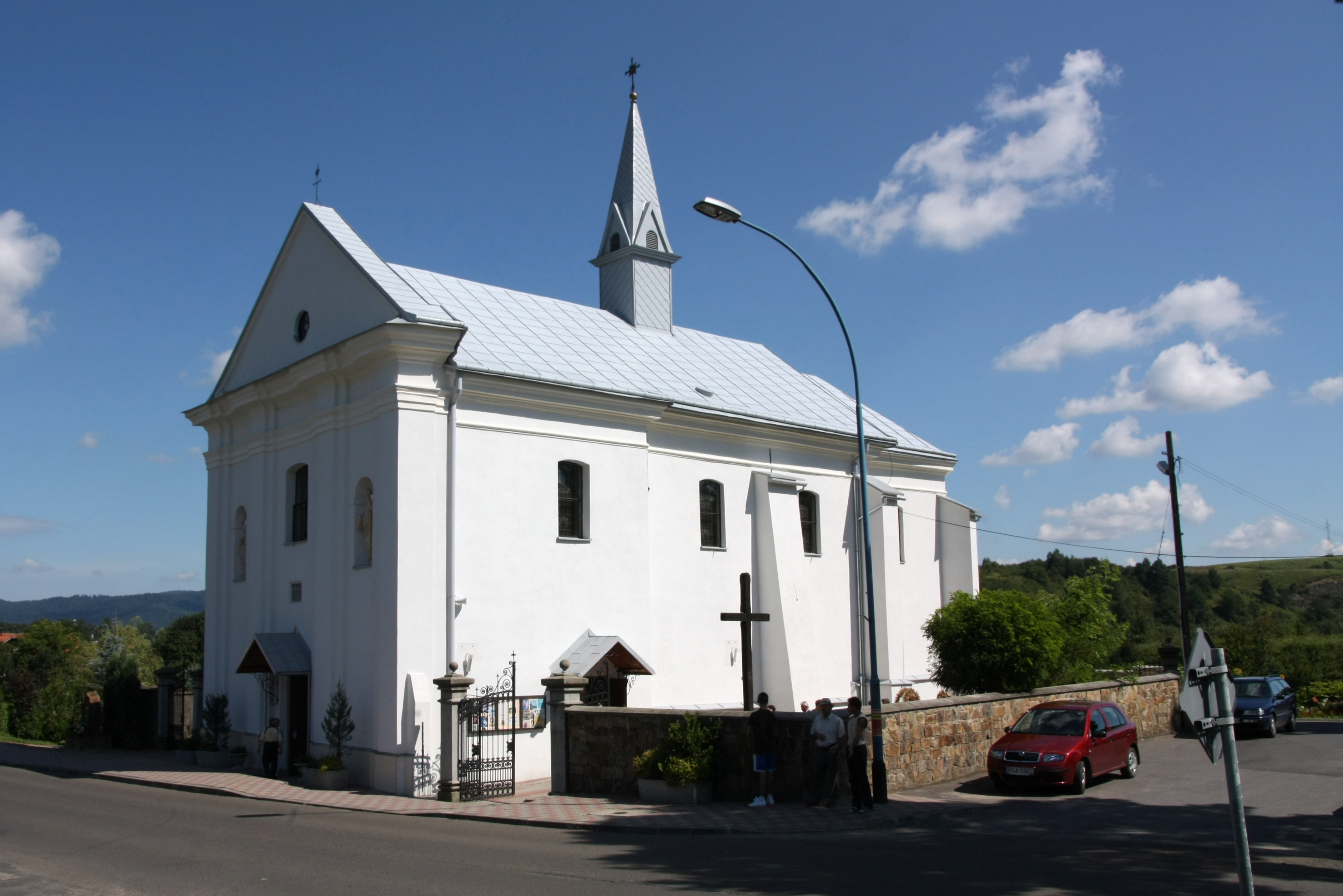 Church in Zagórz.